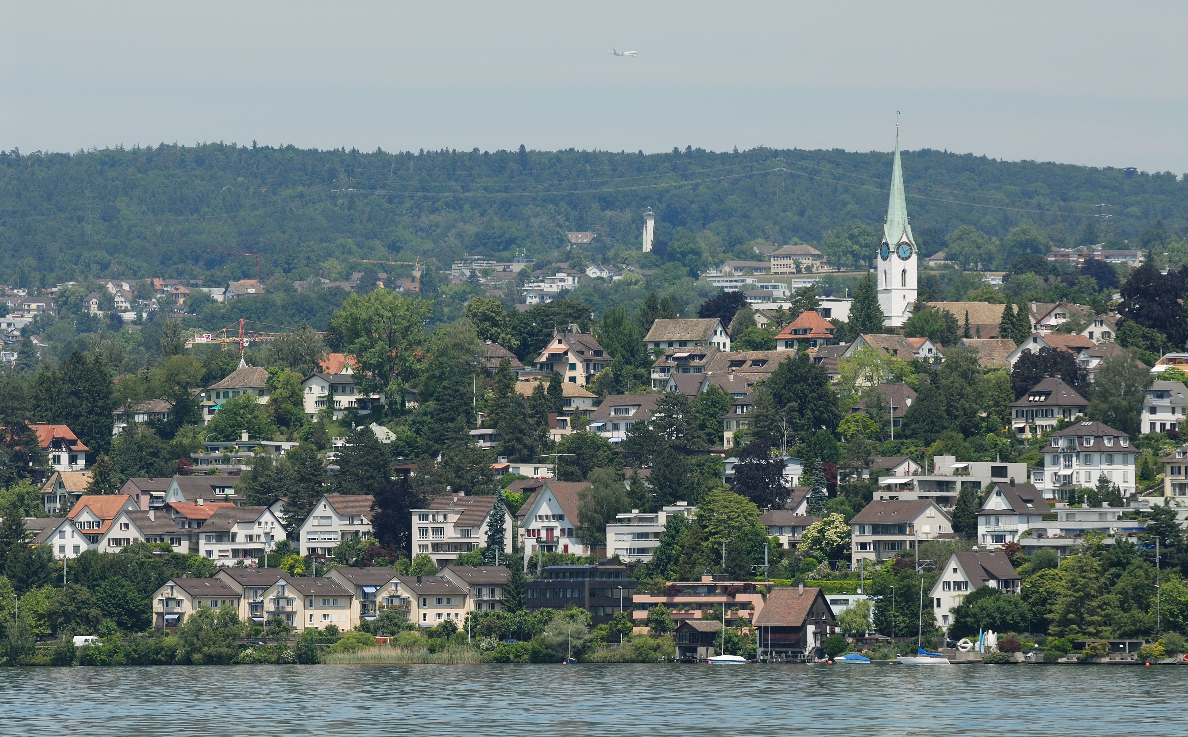 View of Zollikon from Lake Zürich.